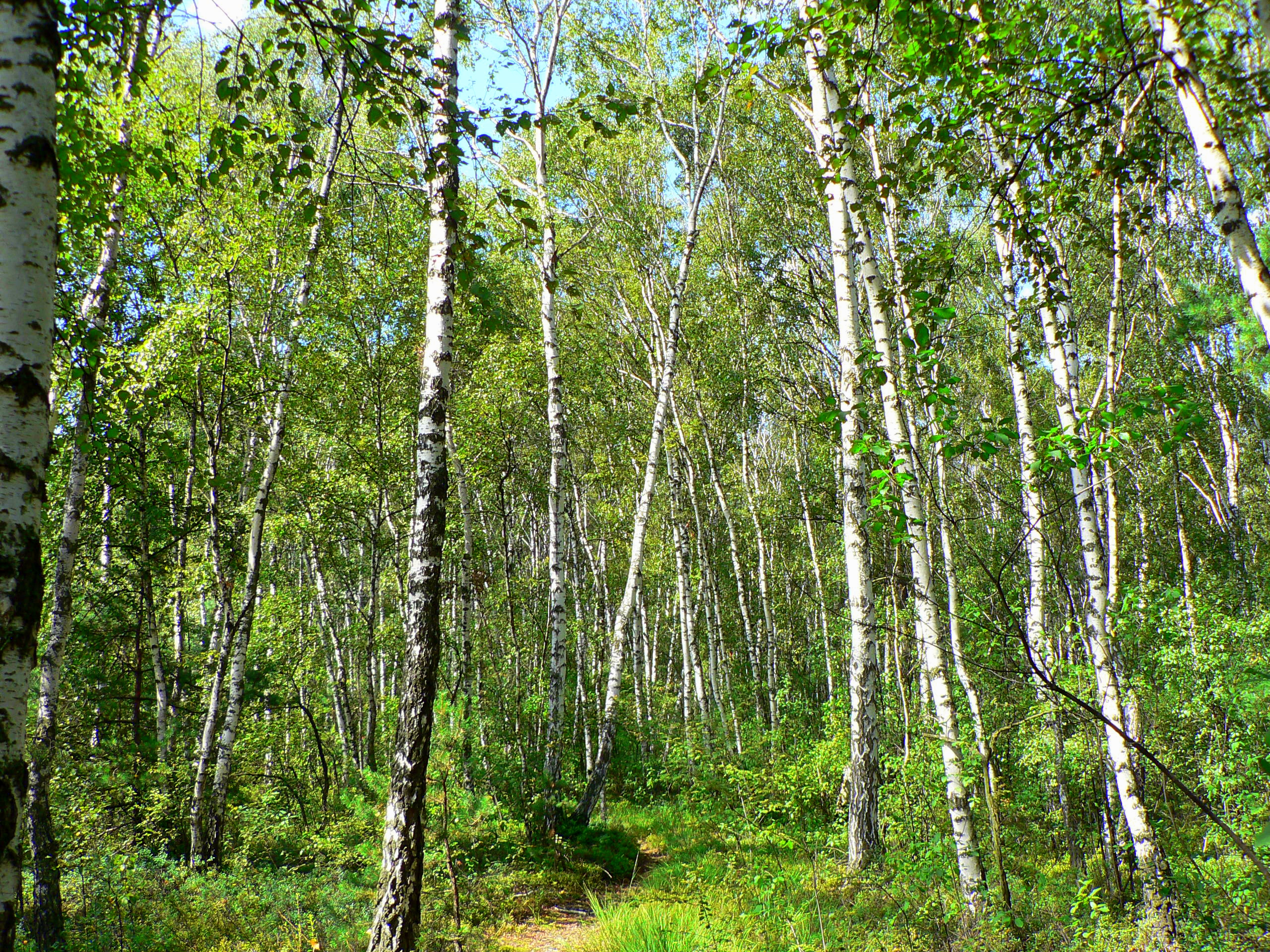 Birch wood in nature reserve Horowe Bagno, Poland